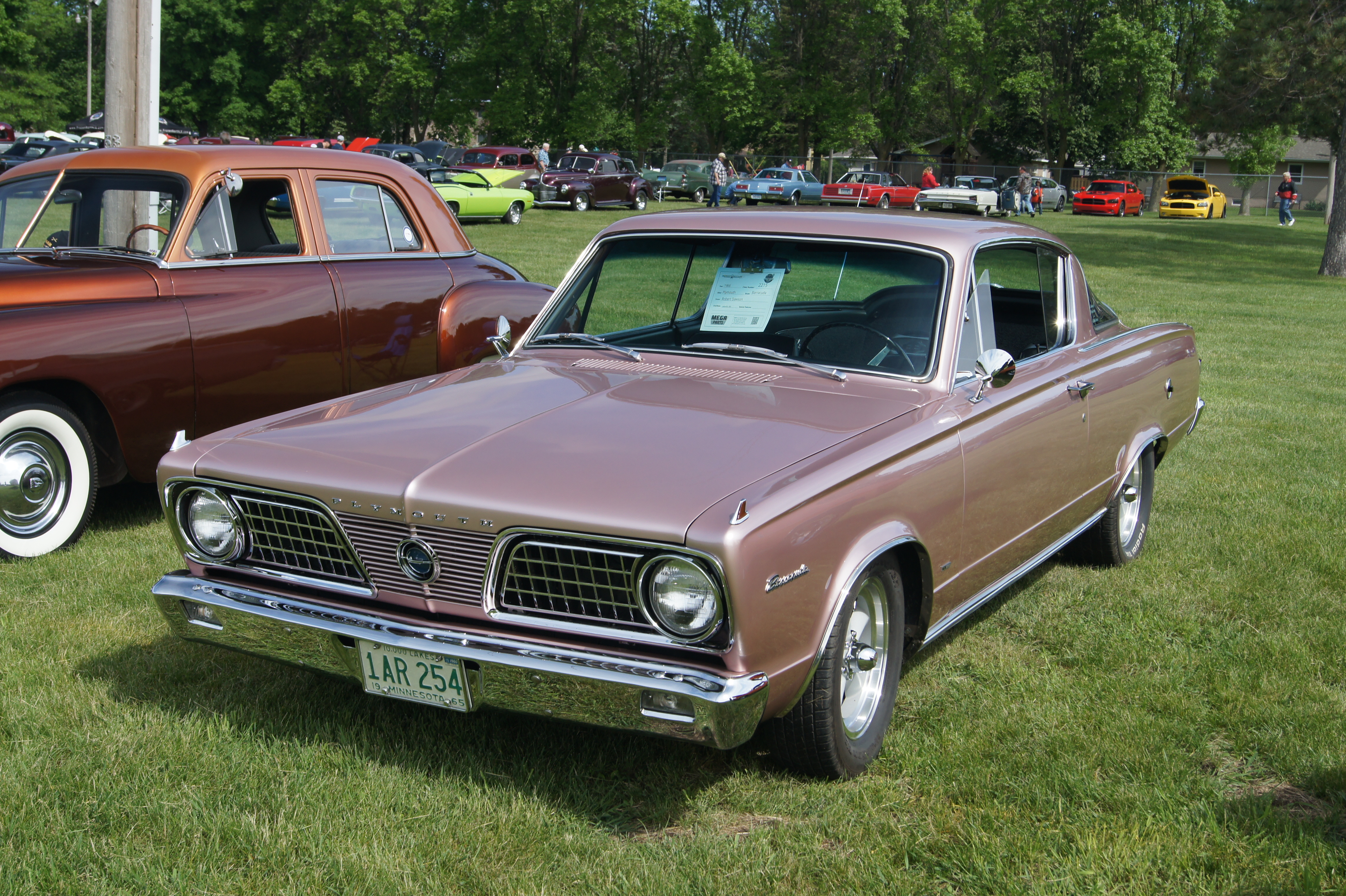 Midwest Mopars in the Park National Car Show & Swap Meet Dakota County Fairgrounds Farmington, Minntesota May 30 & 31, 2015 Click here for more car pictures at my Flickr site.